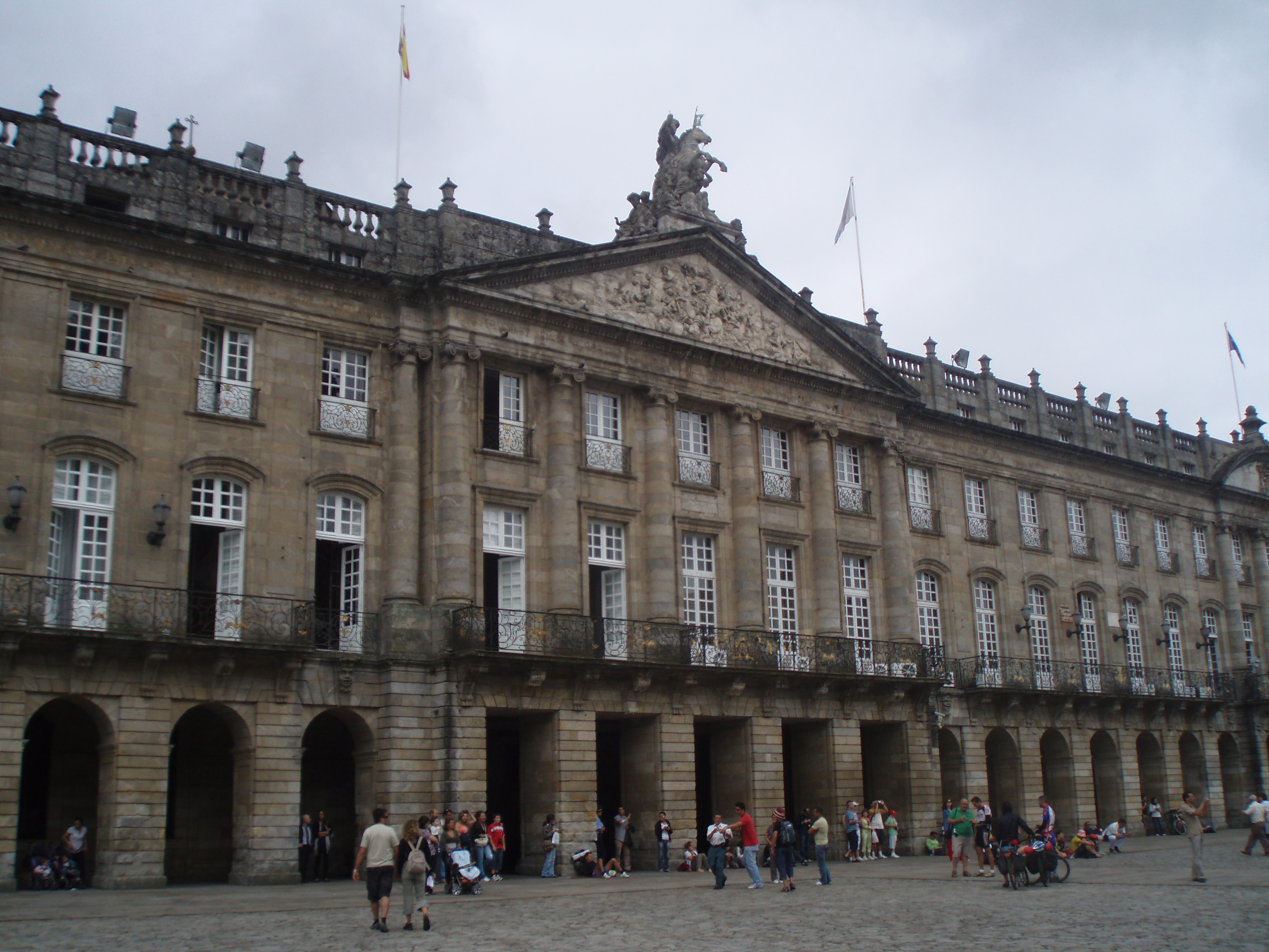 Rajoy Palace, at Obradoiro Place of Santiago of Compostela, in Spain.